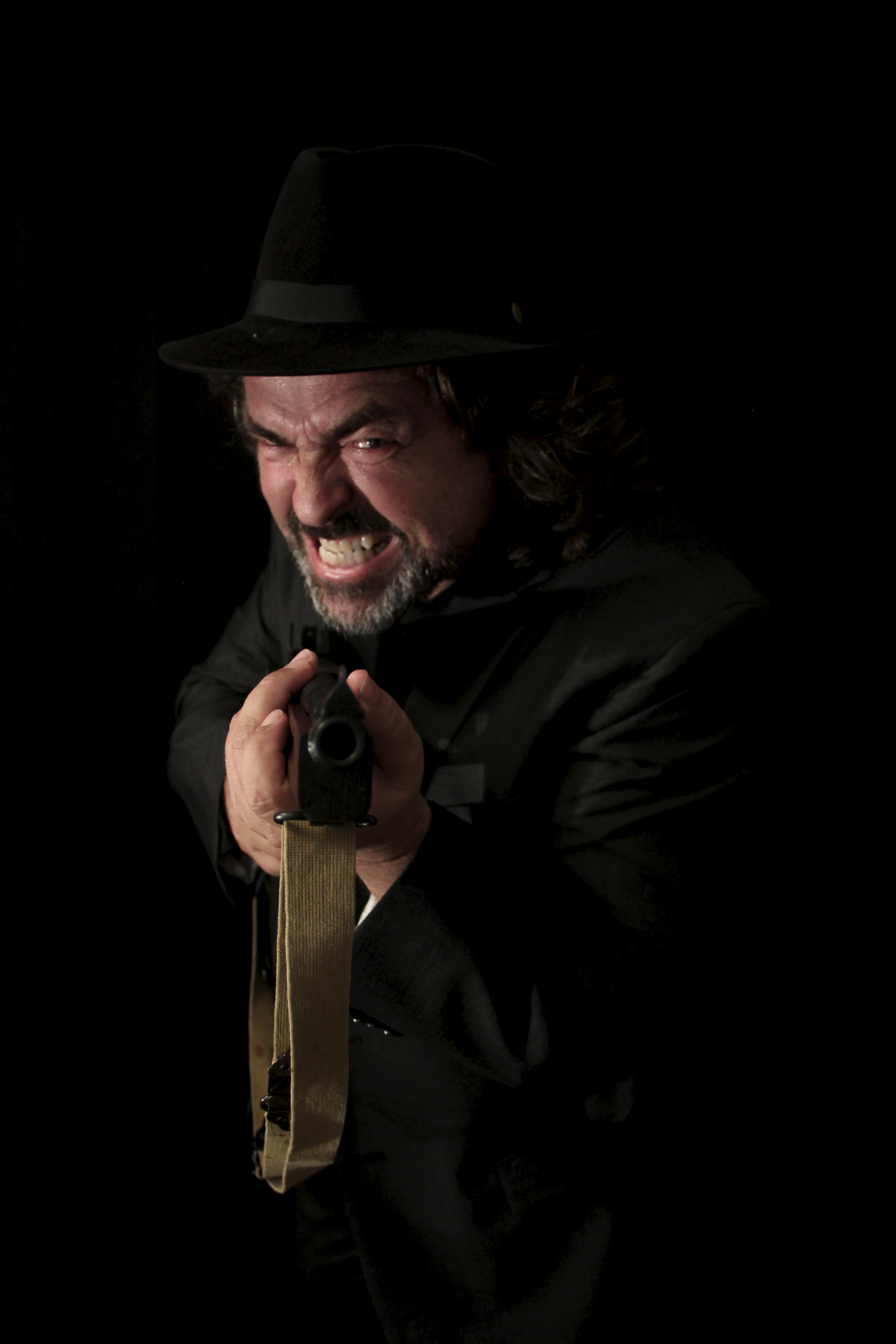 Angus Macfadyen in the film "Timeless". Photo by Alexander Tuschinski